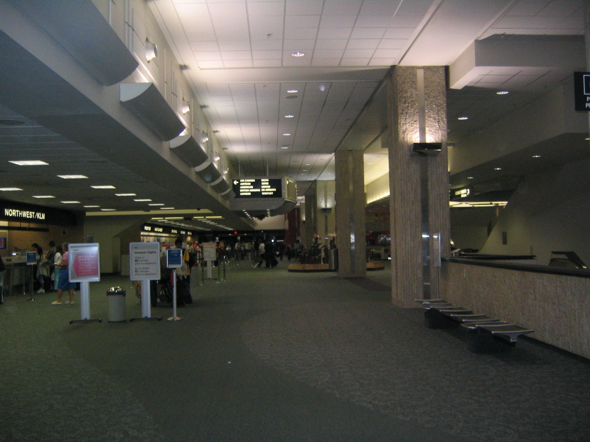 The ticketing level at Tampa International Airport